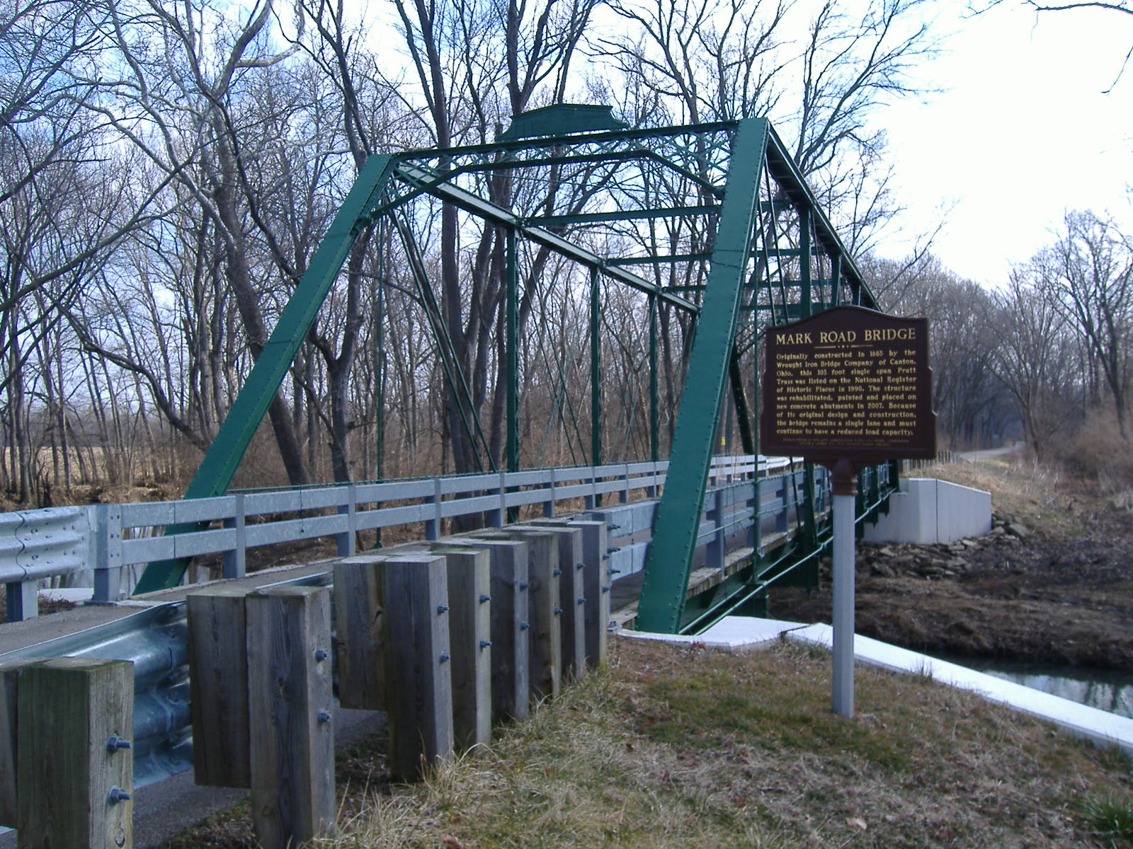 Mark Road Bridge located in Fayette County, Ohio.